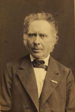 Caspar Frederik Wegener (1802-1893), Danish historian and archivist